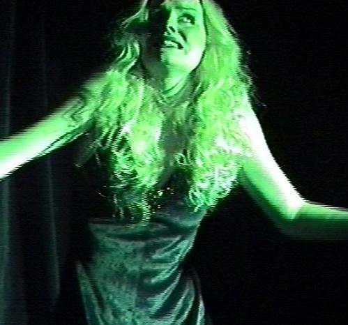 Helena Mattsson in "Wild Side Story", as released by image creator F.U.S.I.A.Place: Wild Side at Bäckahästen, Kungsgatan 50, Stockholm, Sweden